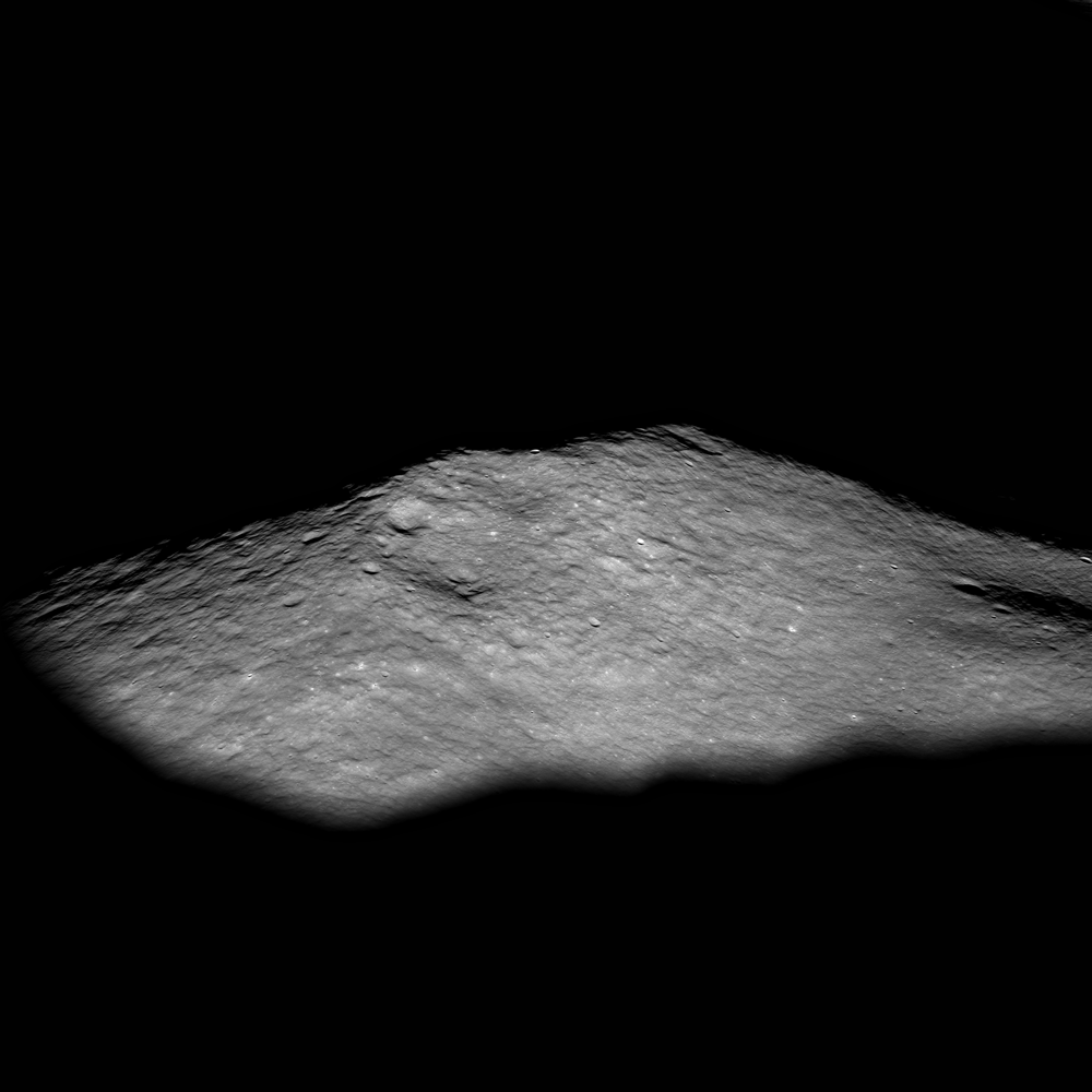 The central peak of Icarus crater rising out of the shadows to greet a new lunar day! Image width is approximately 10 km, north is to the right, LROC M1124685518 [NASA/GSFC/Arizona State University].